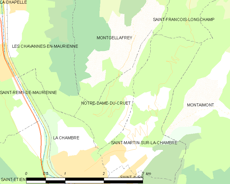 Map of French municipality